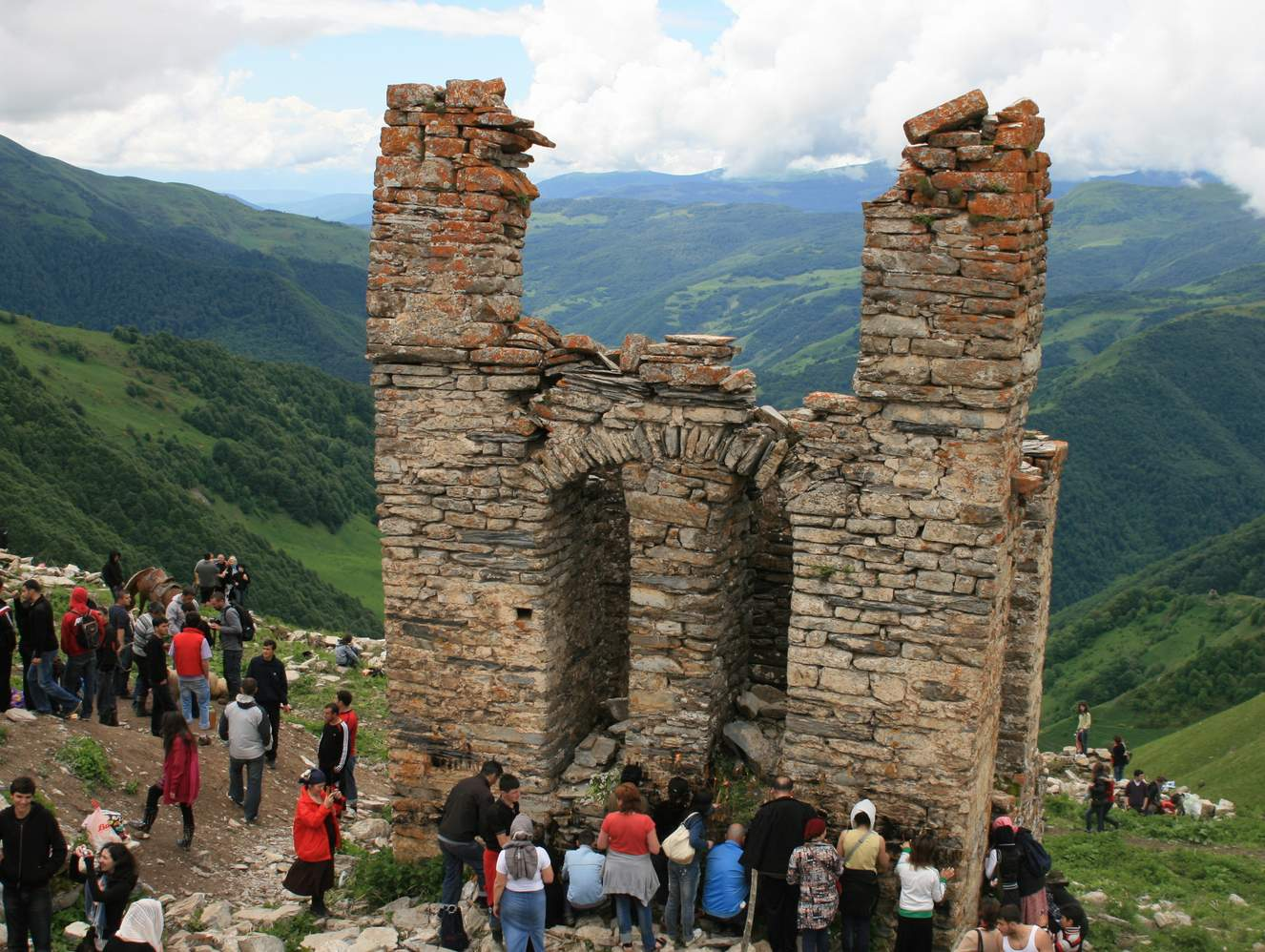 The festival Lomisoba in Georgia, 2011